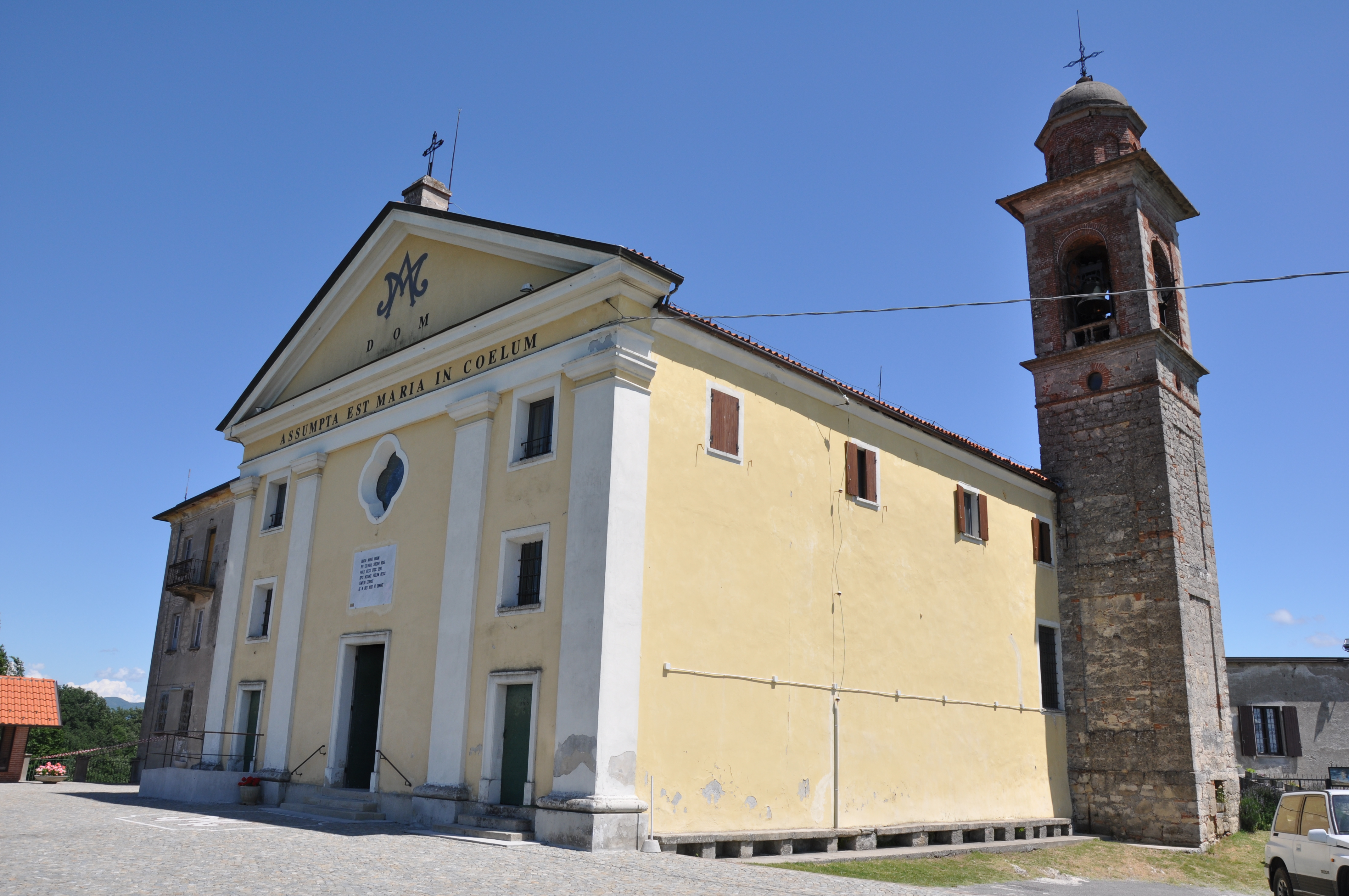 Church in Monte Spineto, Stazzano (Alessandria) ITALY